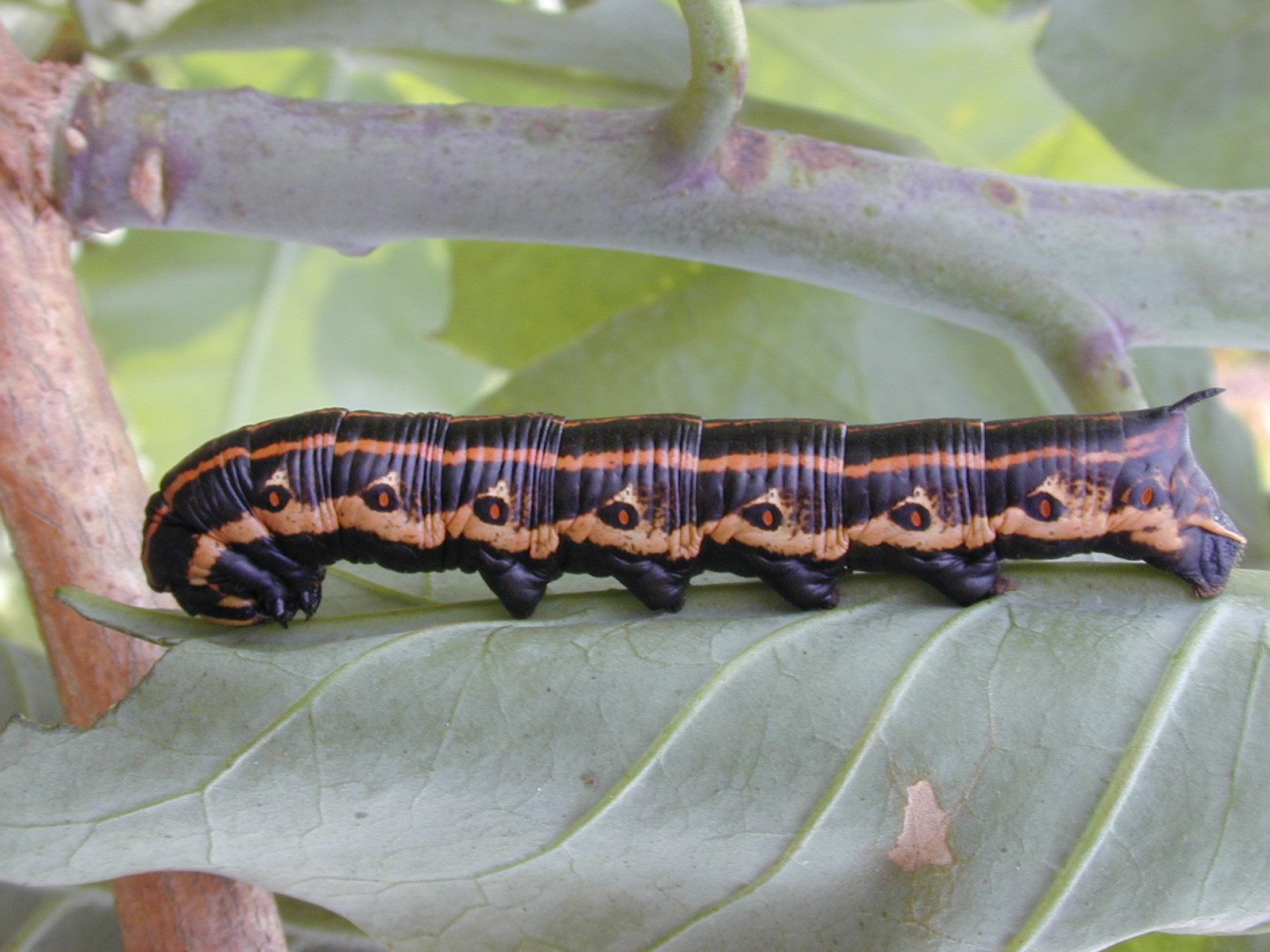 Nicotiana glauca (Agrius cingulata larva black morph). Location: Maui, Kahului